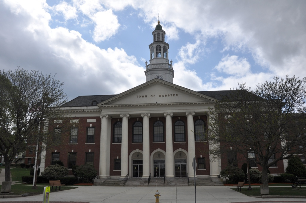 The town hall of Webster, Massachusetts; part of the Webster Municipal Buildings Historic District.